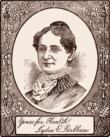 Lydia Pinkham - The back cover says (ellipses show missing places where corner of cover is missing) ...tire book copyrighted in 1901 and 1904 by the Lydia ... m Medicine Co. of Lynn, Mass., U. S. A. All rights ... and will be protected by law." I interpret this as "This entire book copyrighted in 1901 and 1904 by the Lydia Pinkham Medicine Co. of Lynn, Mass., U. S. A. All rights reserved and will be protected by law." This dates it as published 1904 and therefore in the public domain. There are no trademark notices. Numark Laboratories sells a product called Lydia Pinkham® Herbal Compound with a ® symbol after Lydia Pinkham. The image, however, does not refer to a product, but to the author of the book, and it says "Lydia E. Pinkham", not "Lydia Pinkham."